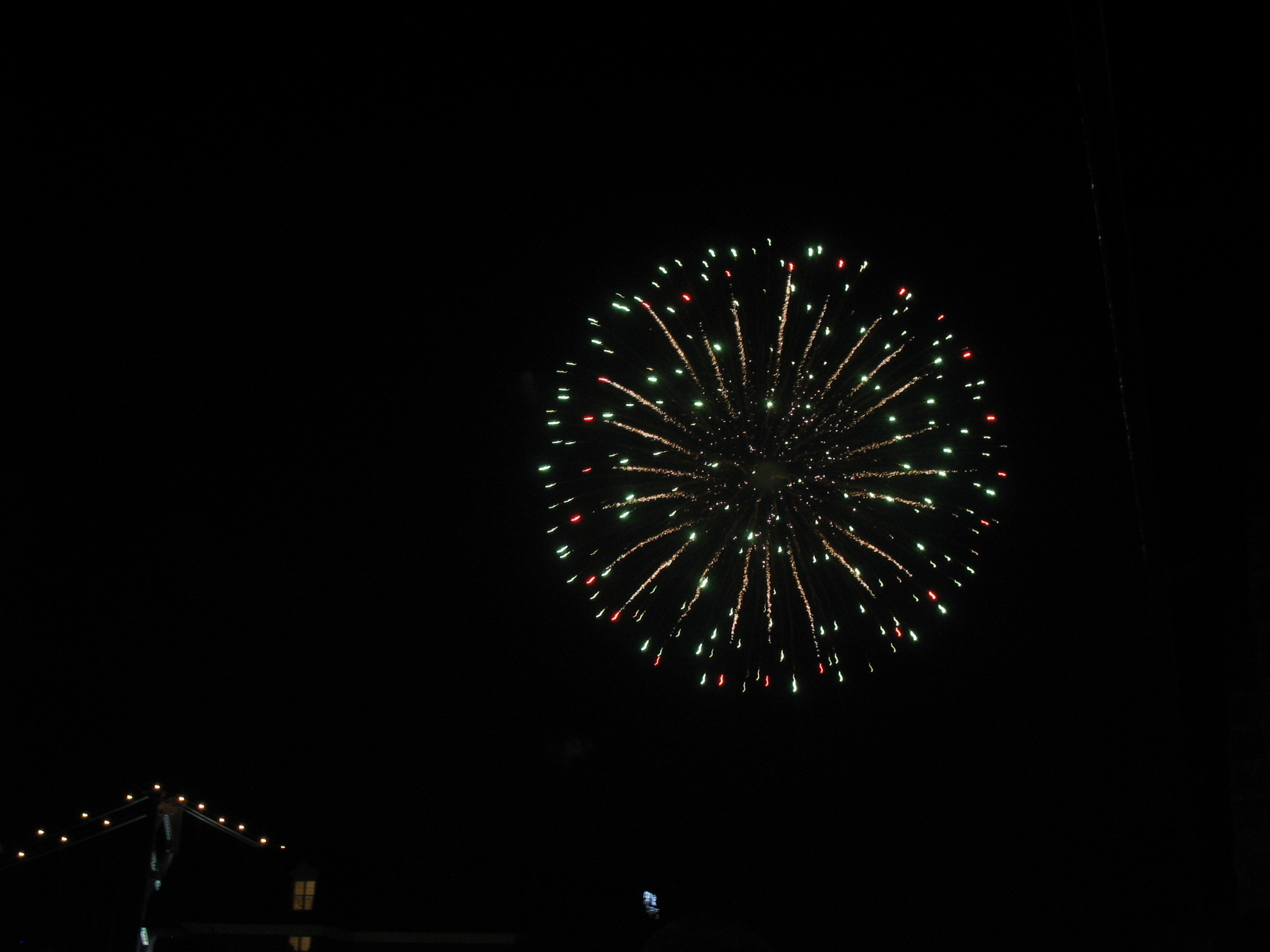 Maysville Kentucky Fireworks 2007